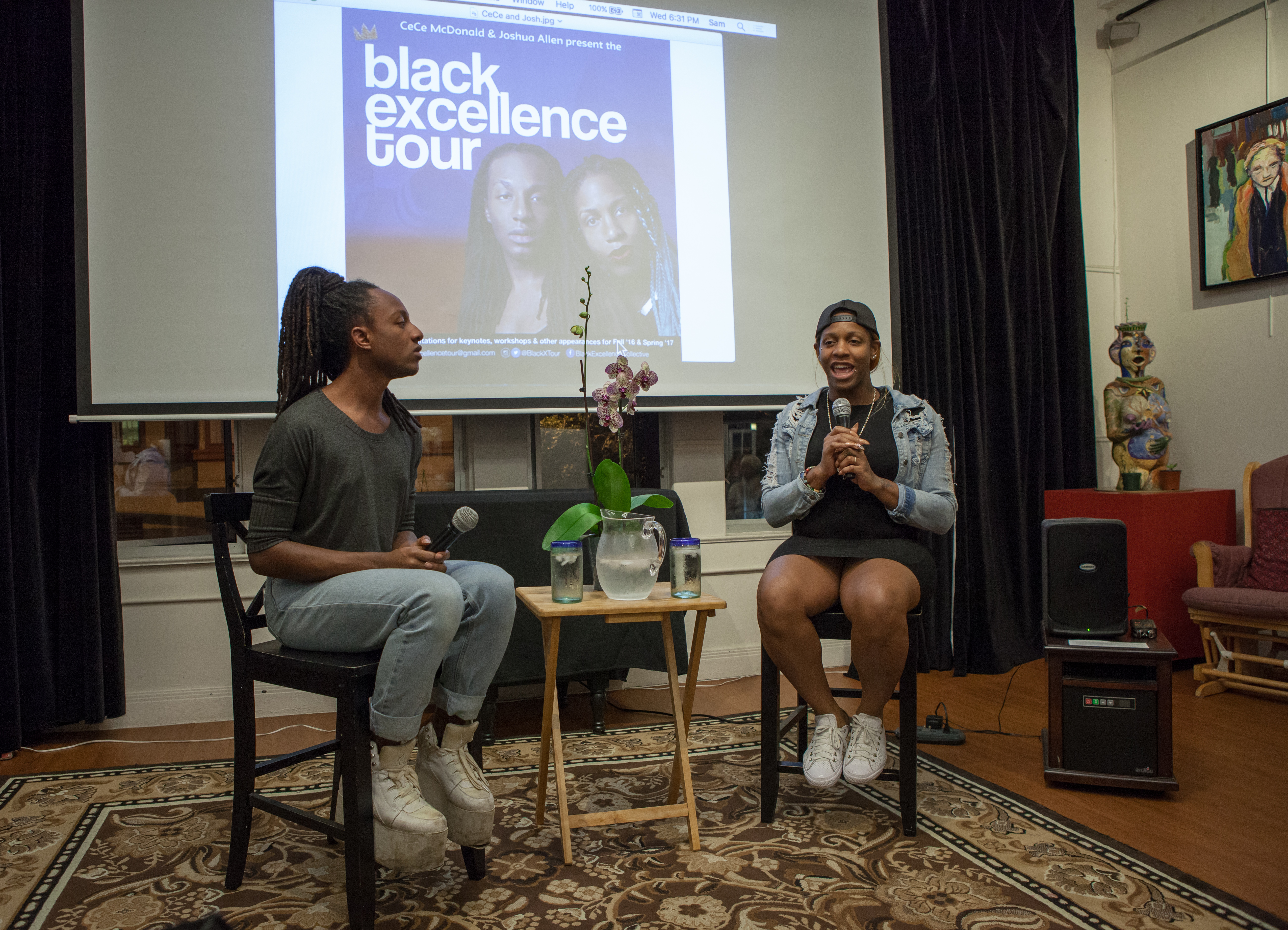 Activists Joshua Allen and CeCe McDonald speak on the Black Excellence Tour at Faithful Fools, San Francisco.